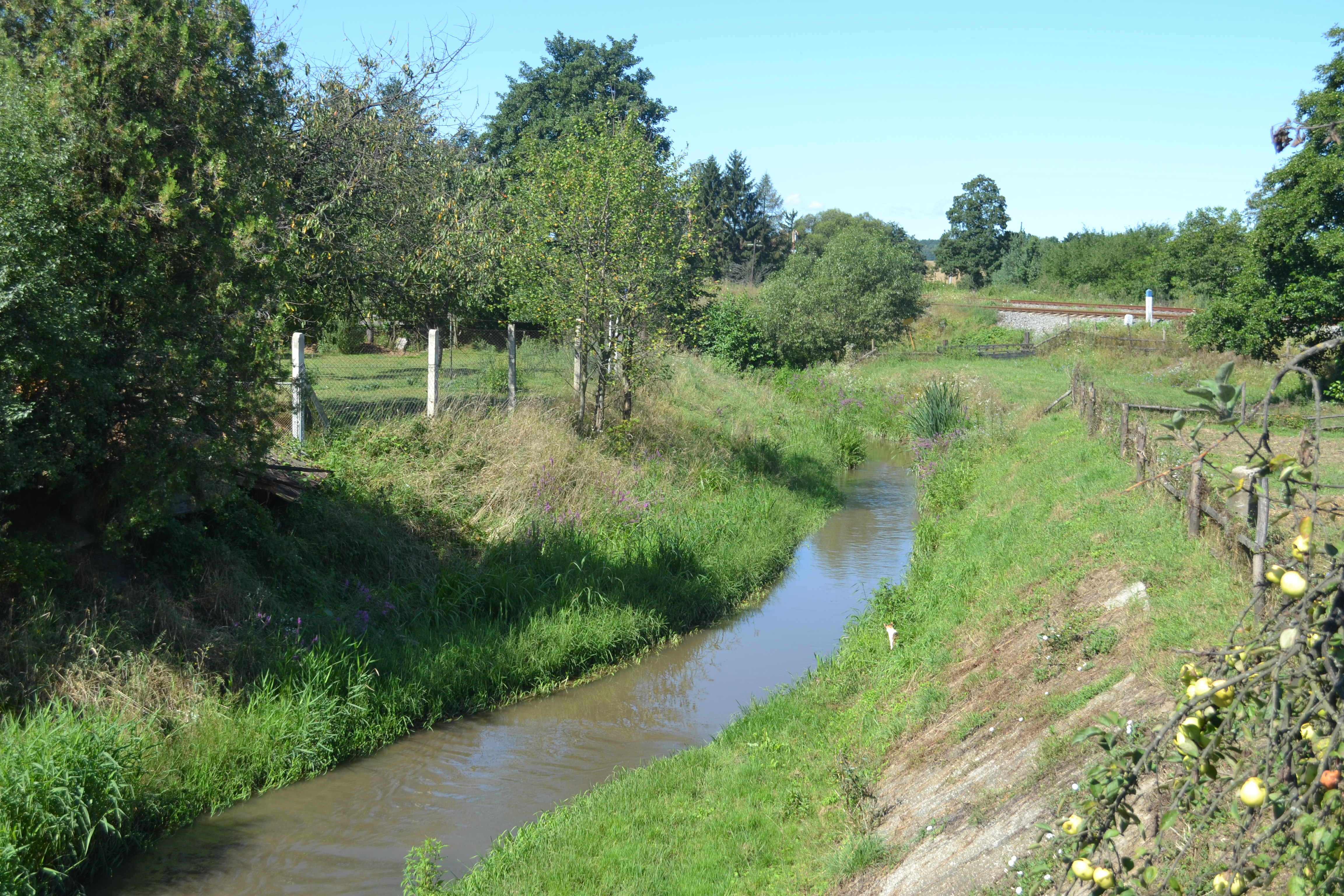 Banský creek flowing through the municipality Breznička